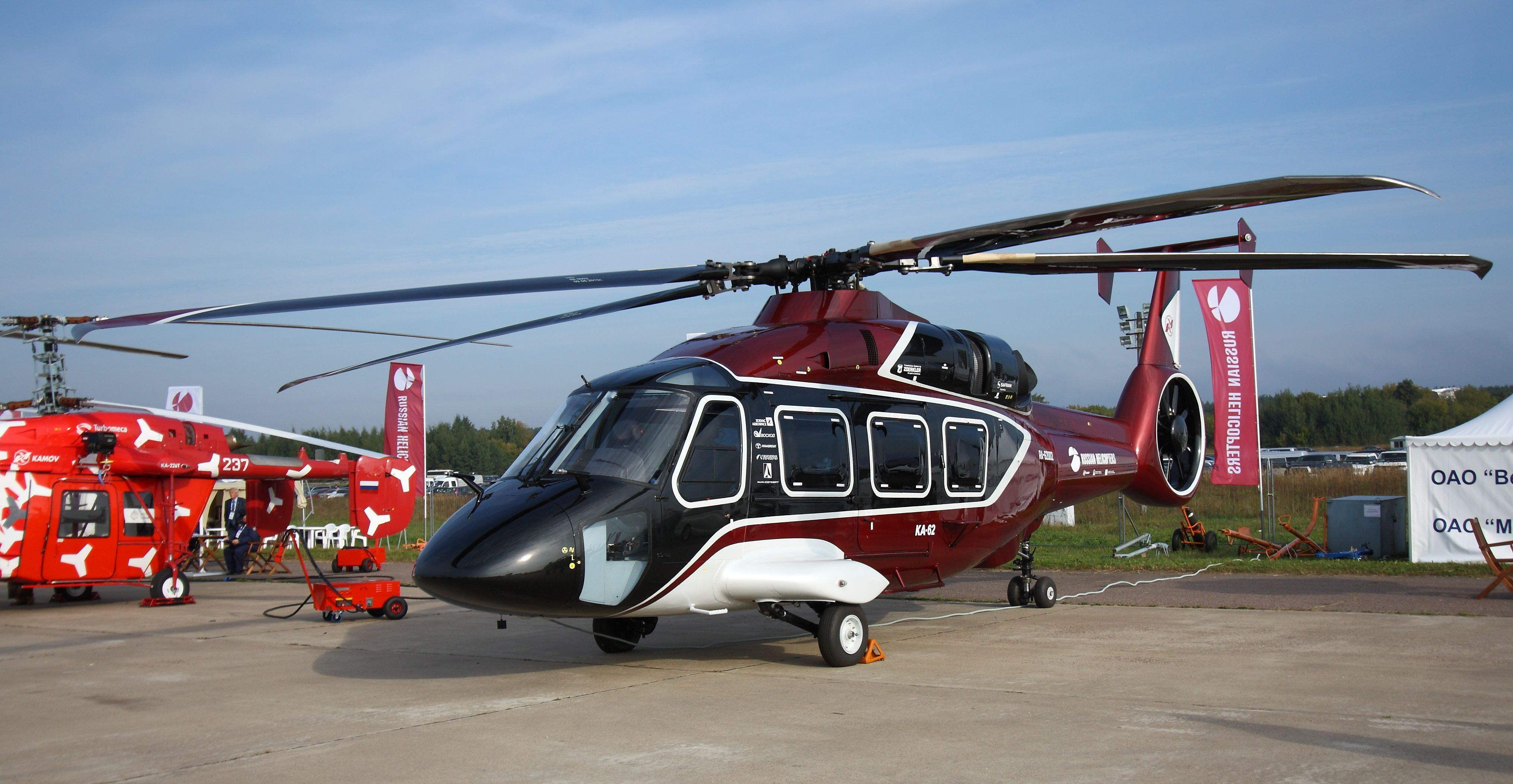 Kamov Ka-62 (The international aerospace salon MAKS-2013)